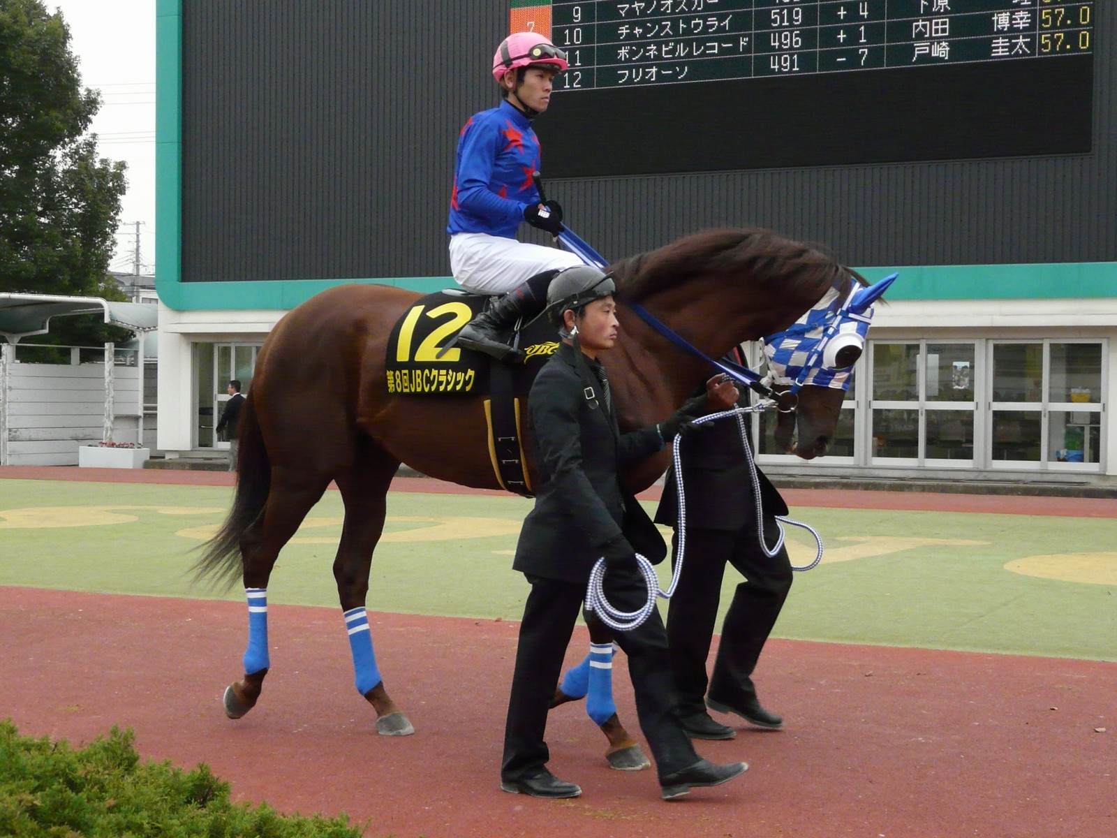 Keita-Tosaki